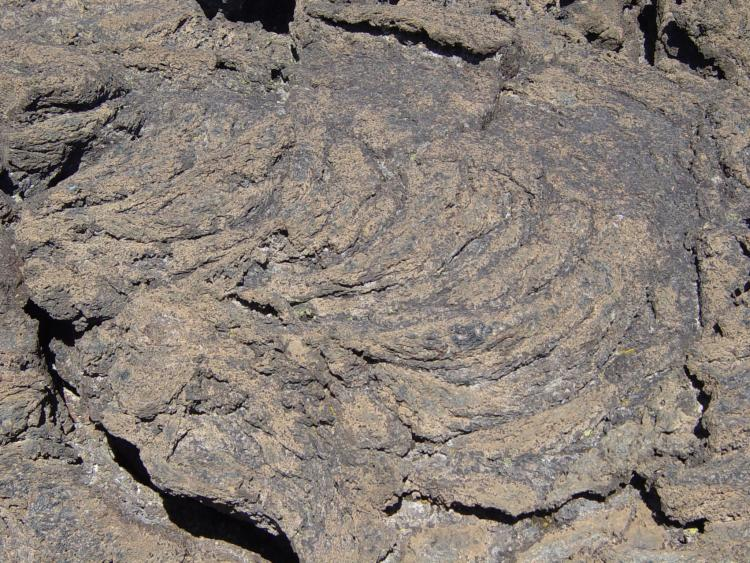 Pahoehoe lava in Lava Beds National Monument, California, USA